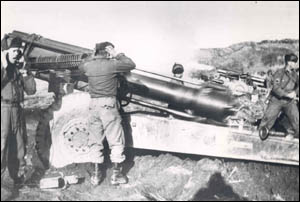 Near 38th Parallel, South Korea — The 936th Field Artillery Battalion (AR) goes into action in support of the 7th Infantry Division during a counterattack to restore and stabilize the front along the 38th Parallel dividing the two Korea's. While a number of Army Guard non-divisional, mostly transportation and engineer, units began arriving in Korea at the start of the new year, the 936th is the first to enter into offensive combat. Over the next 100 days it would fire nearly 50,000 rounds into enemy positions, about one third of what it fired in 500 days of combat during World War II. Of the 41 non-divisional Guard units deployed to Korea, eleven were field artillery battalions. The 936th's lineage is carried by Arkansas's 1st Battalion, 142nd Field Artillery.